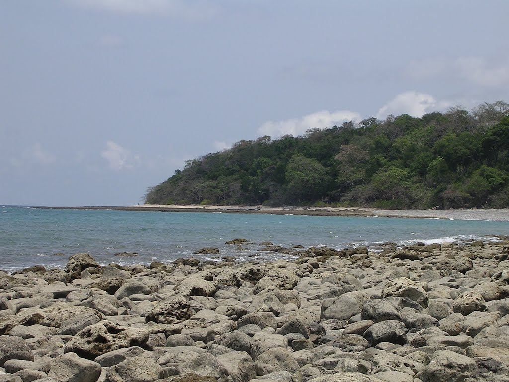 Tropical dry forest and coast at Aramaco River estuary, Muapitine, Lautem, Timor-Leste